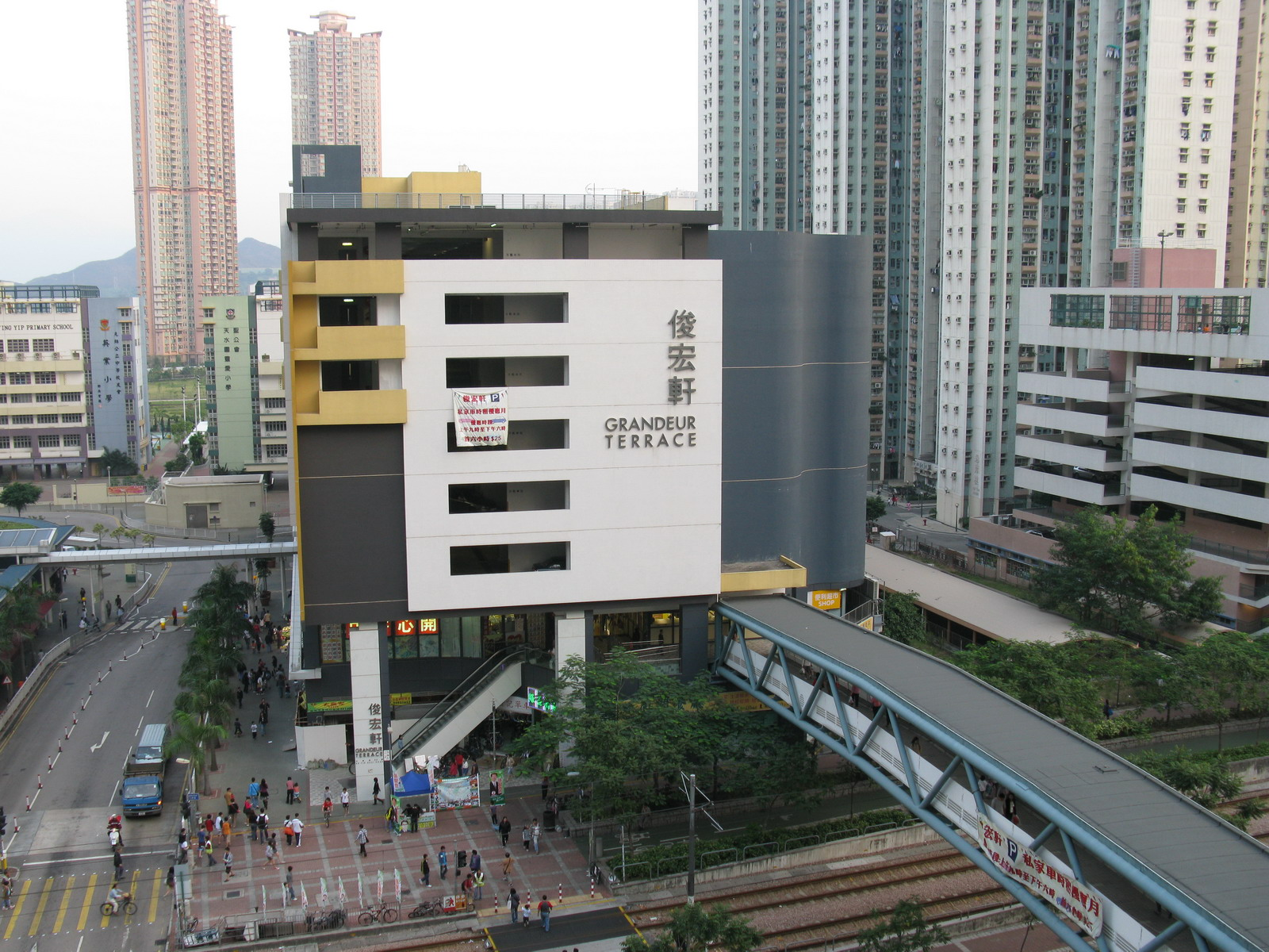 Grandeur Terrace Shopping Centre, Grandeur Terrace